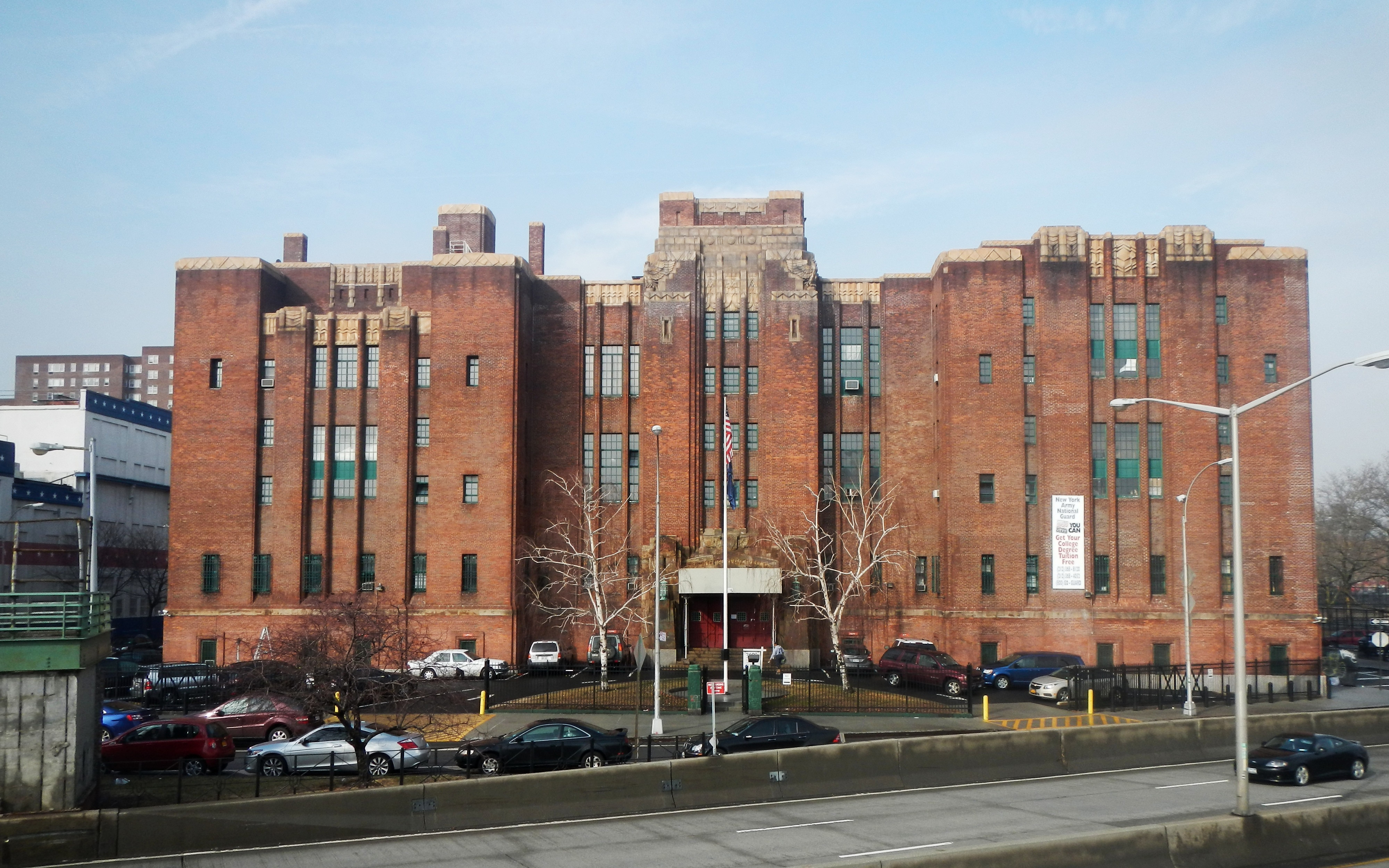 Looking west from pedestrian ramp, at armory.